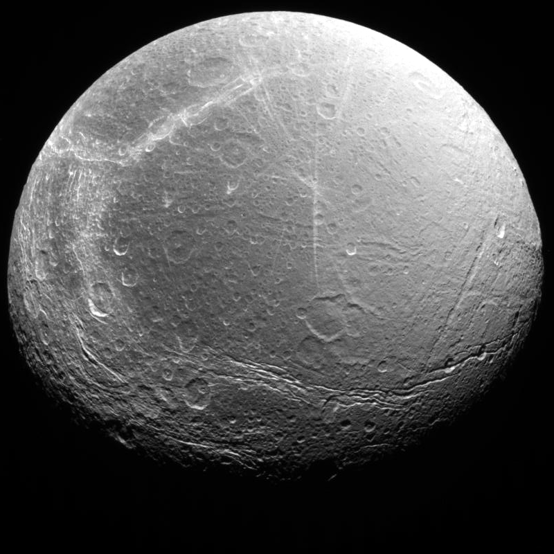 Dione = One very beat-up moon. Cracks, canyons, craters, streaks and more. Courtesy NASA/JPL-Caltech